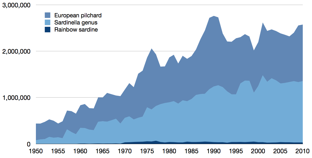 Global capture of sardines NOT in the Sardinops genus, in tonnes 1950–2010, as reported by the FAO. Based on data sourced from the relevant FAO Species Fact Sheets